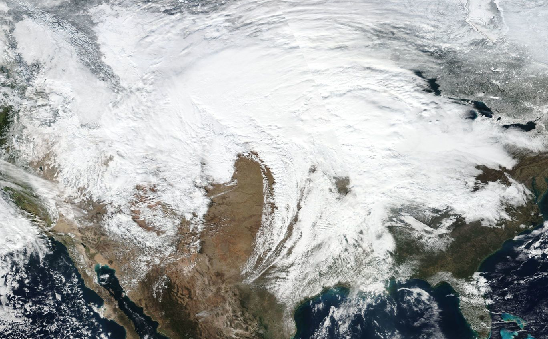 Satellite image of the blizzard over the northern United States on December 25, 2016.